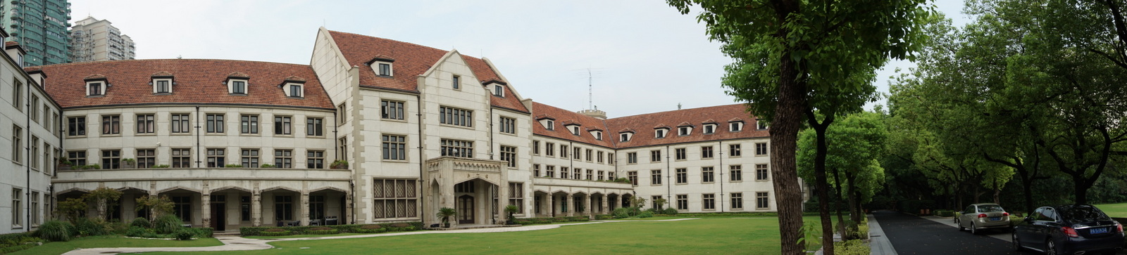 Shanghai No. 3 Girls' High School, Five-One lecture hall panorama